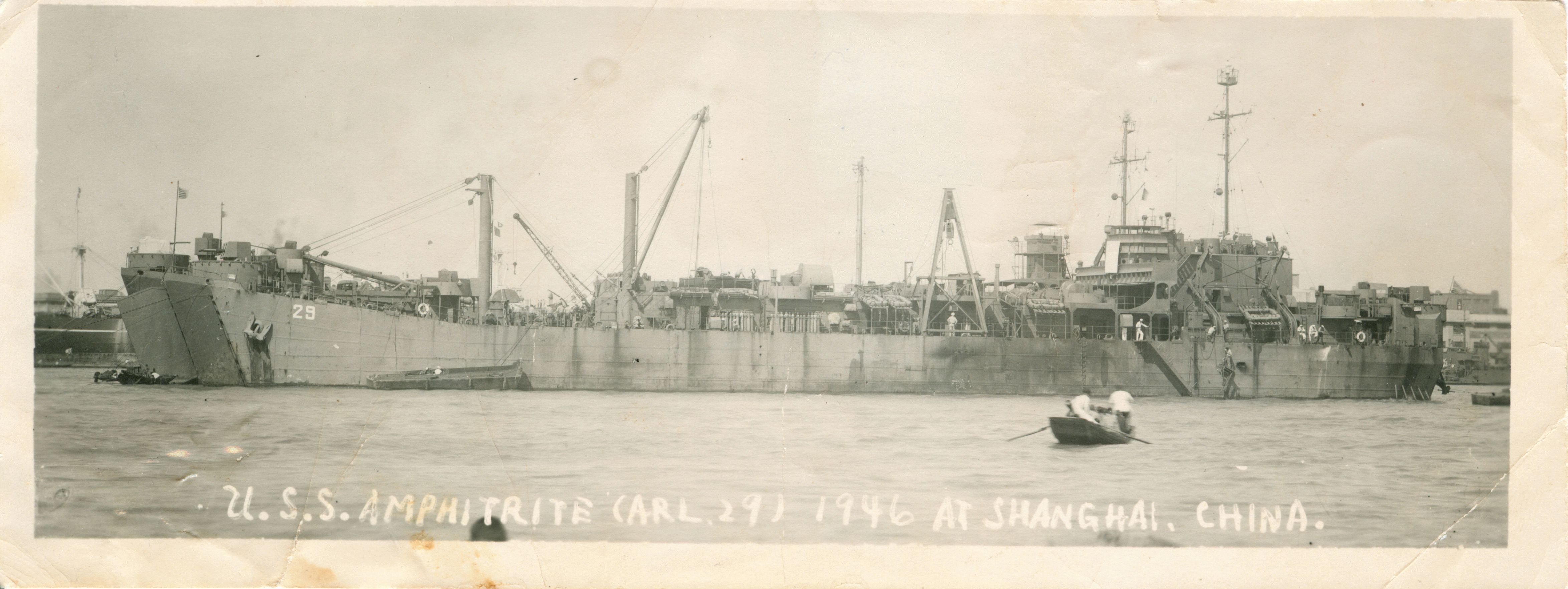 World War II landing craft repair ship USS Amphitrite in Shanghai Harbor, April 29, 1946